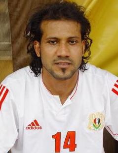 Majed Al Haj - Syrian football player